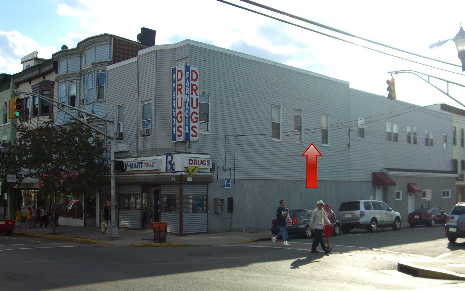 Residential building at 803 Summit Avenue, at the corner of 11th Street, in Union City, New Jersey.